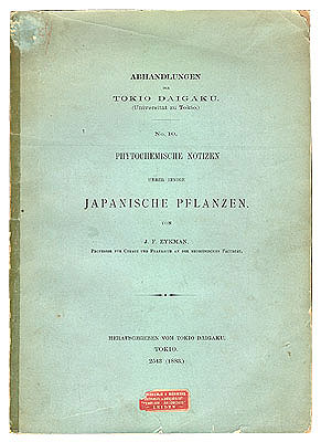 cover of "Phytochemische Notizen ueber einige Japanische Pflanzen."